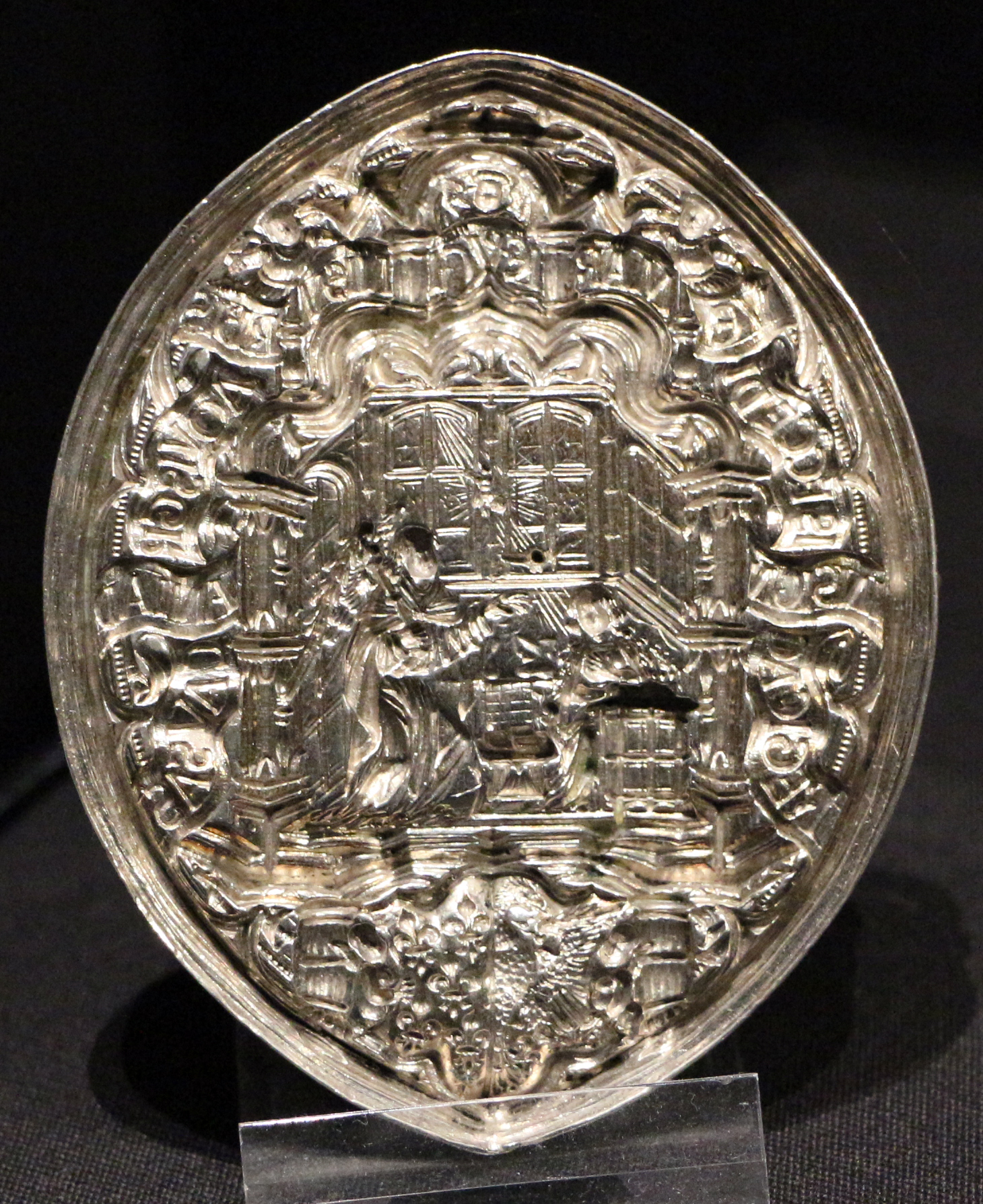 Domschatz, Aachen